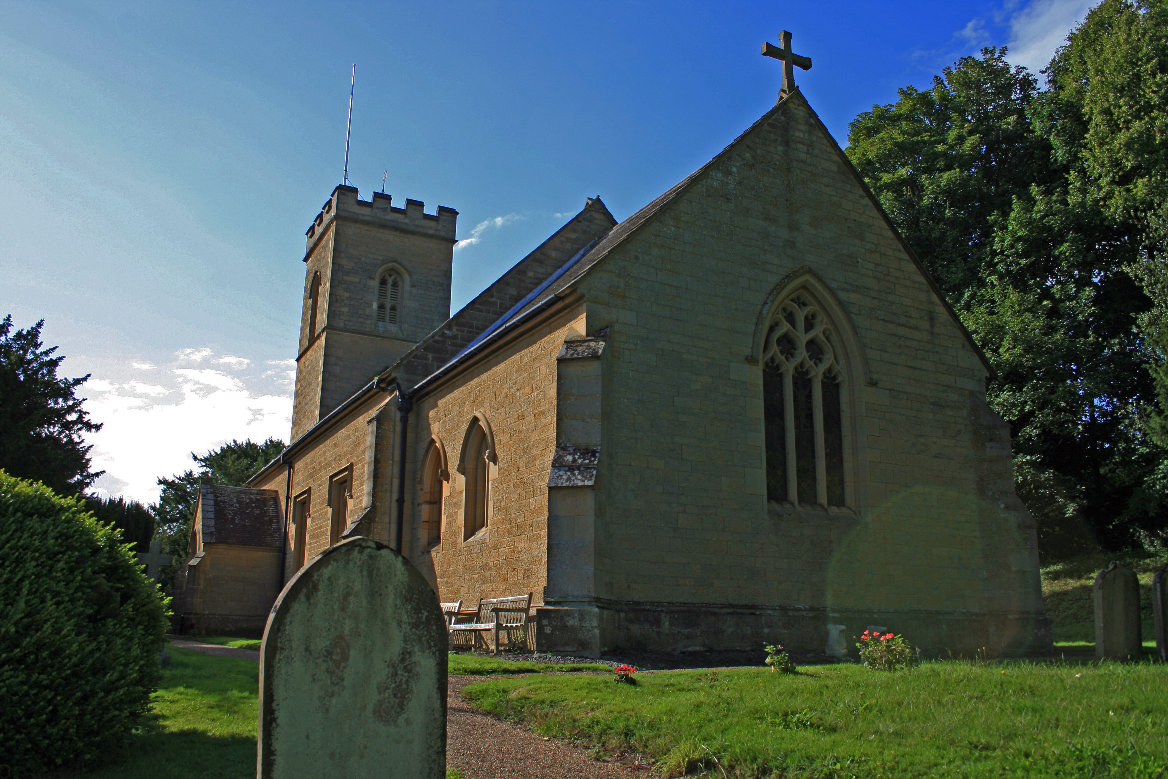 Holy Trinity parish church, Crockham Hill, Kent, England, seen from the southeast